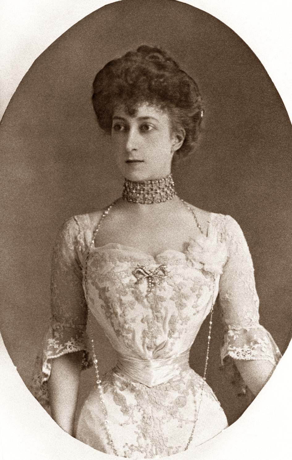 Queen Maud of Norway (1869–1938)